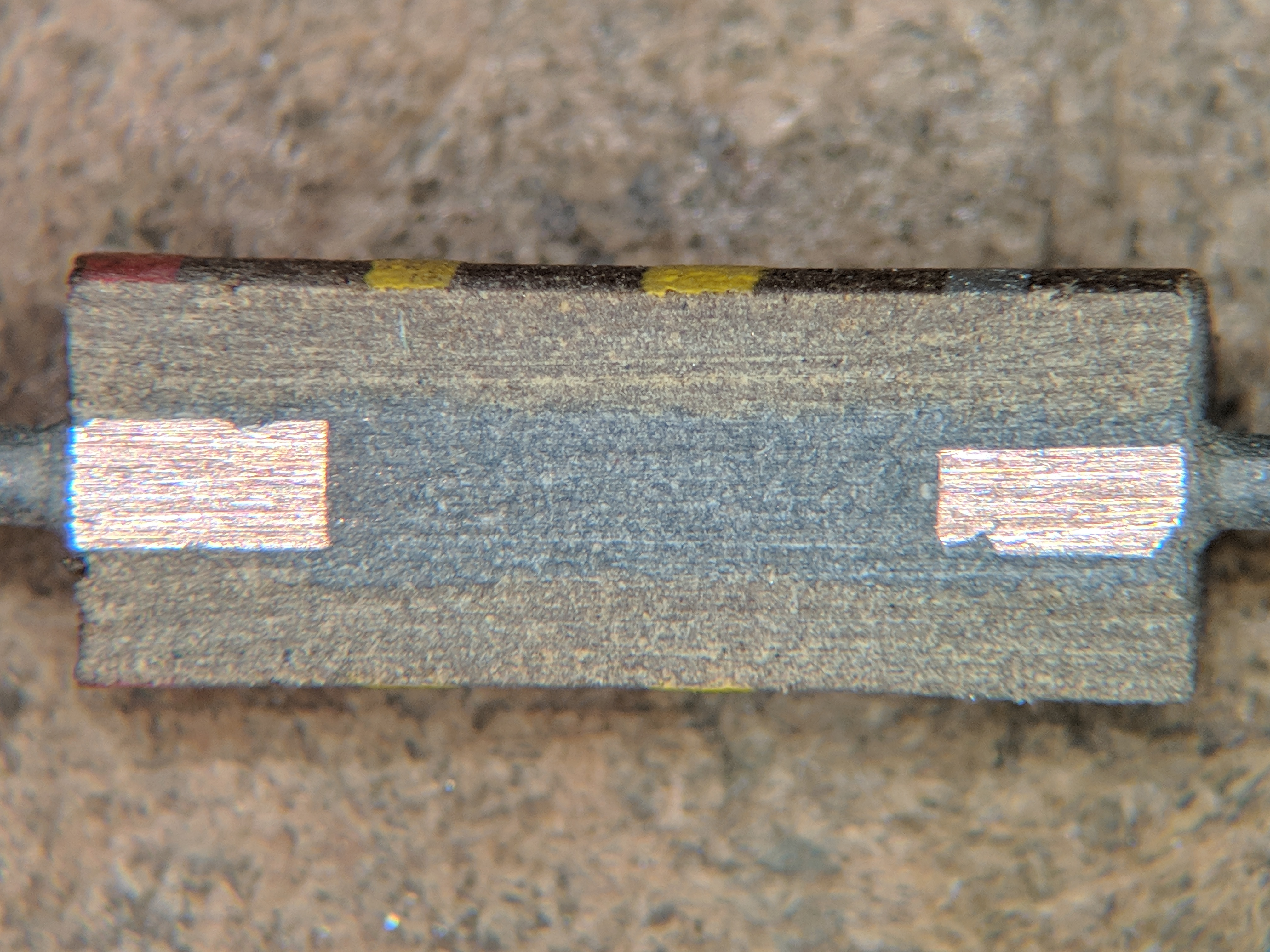 This is a cross section of a common axial leaded carbon composition resistor.